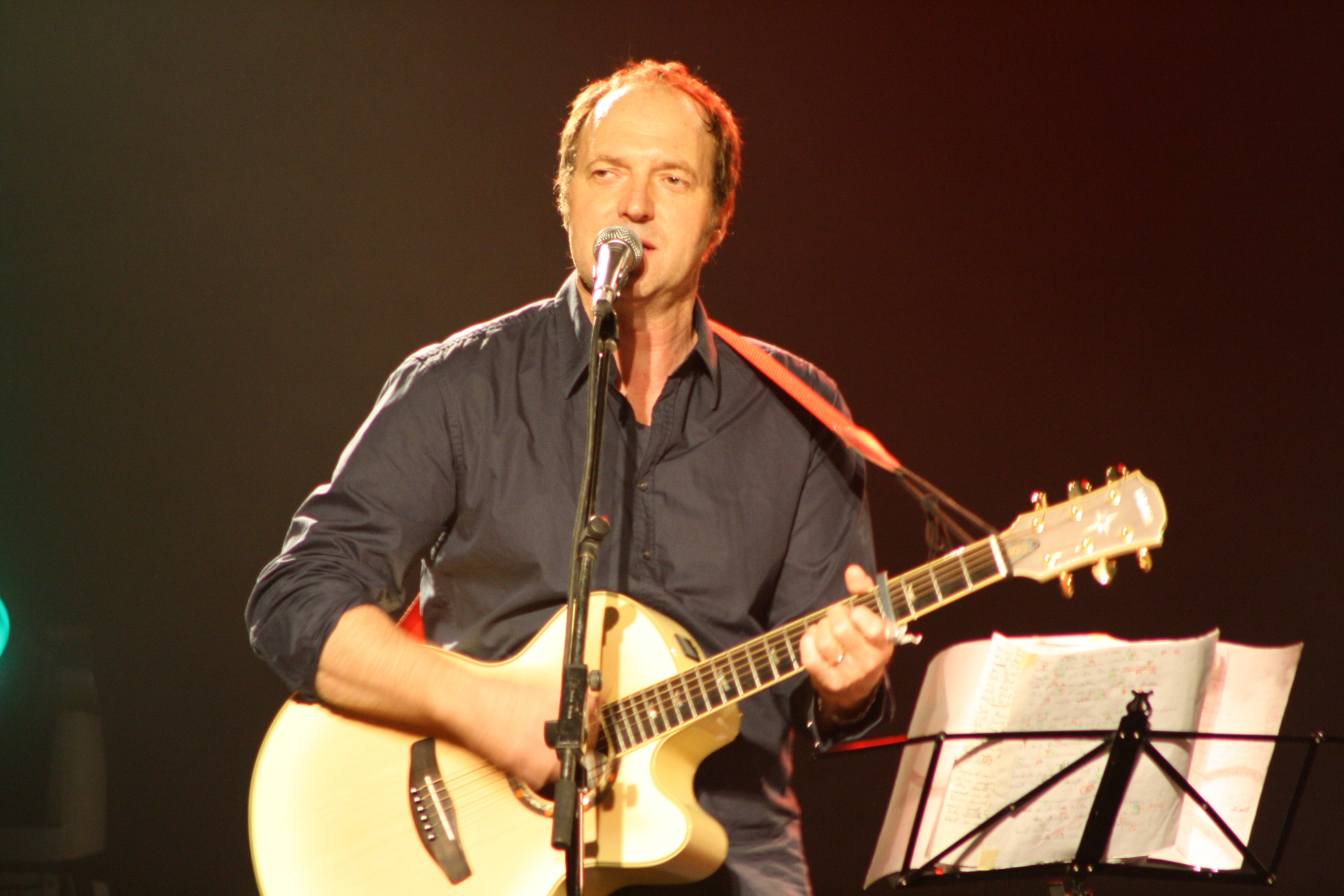 Funny van Dannen; Wiesbaden; Schlachthof